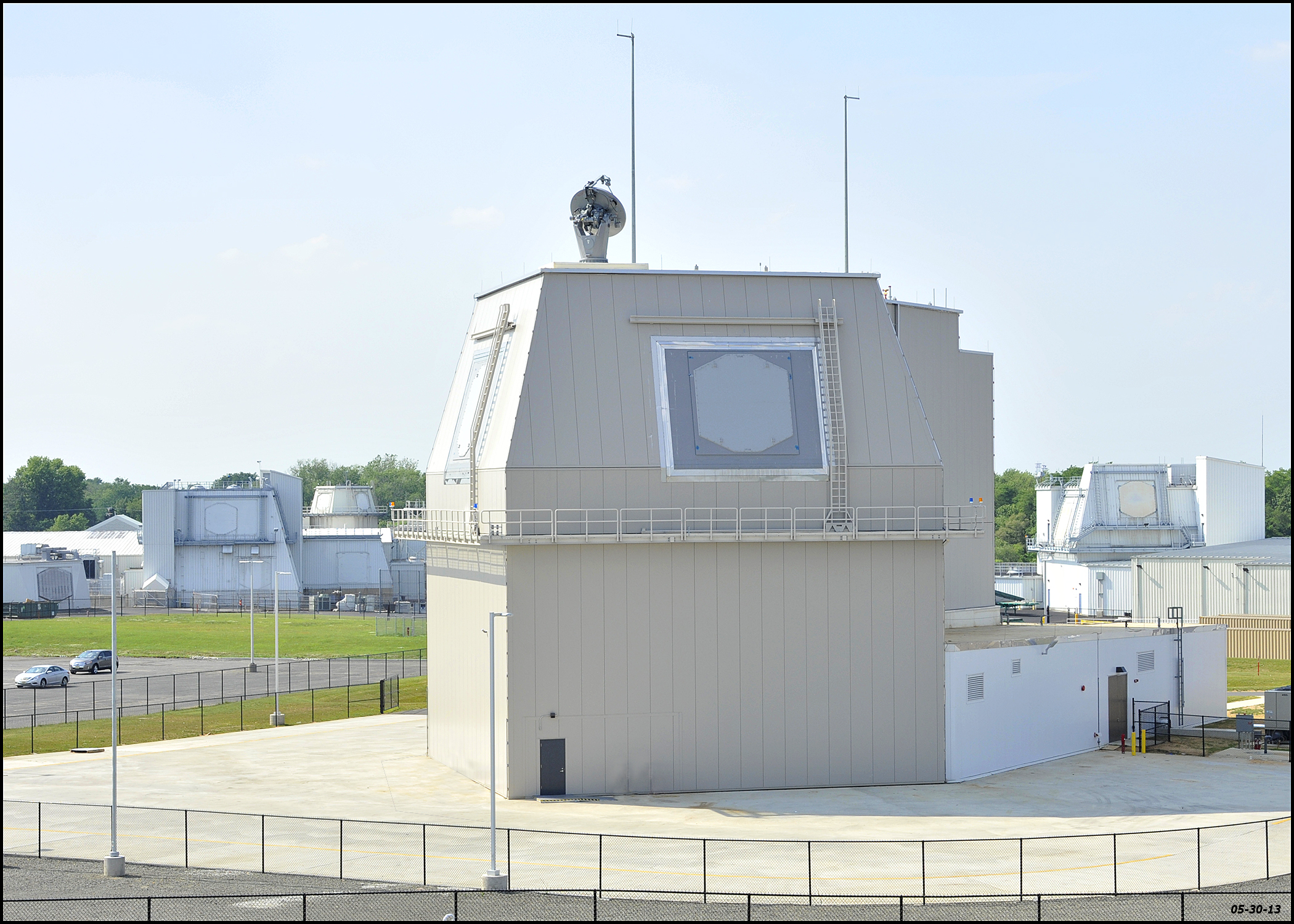 The deckhouse for the Aegis Ashore system bound for Romania at the Lockheed Martin Aegis facility. Missile Defense Agency Photo